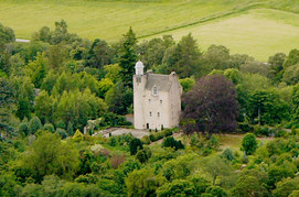 Abergeldie Castle